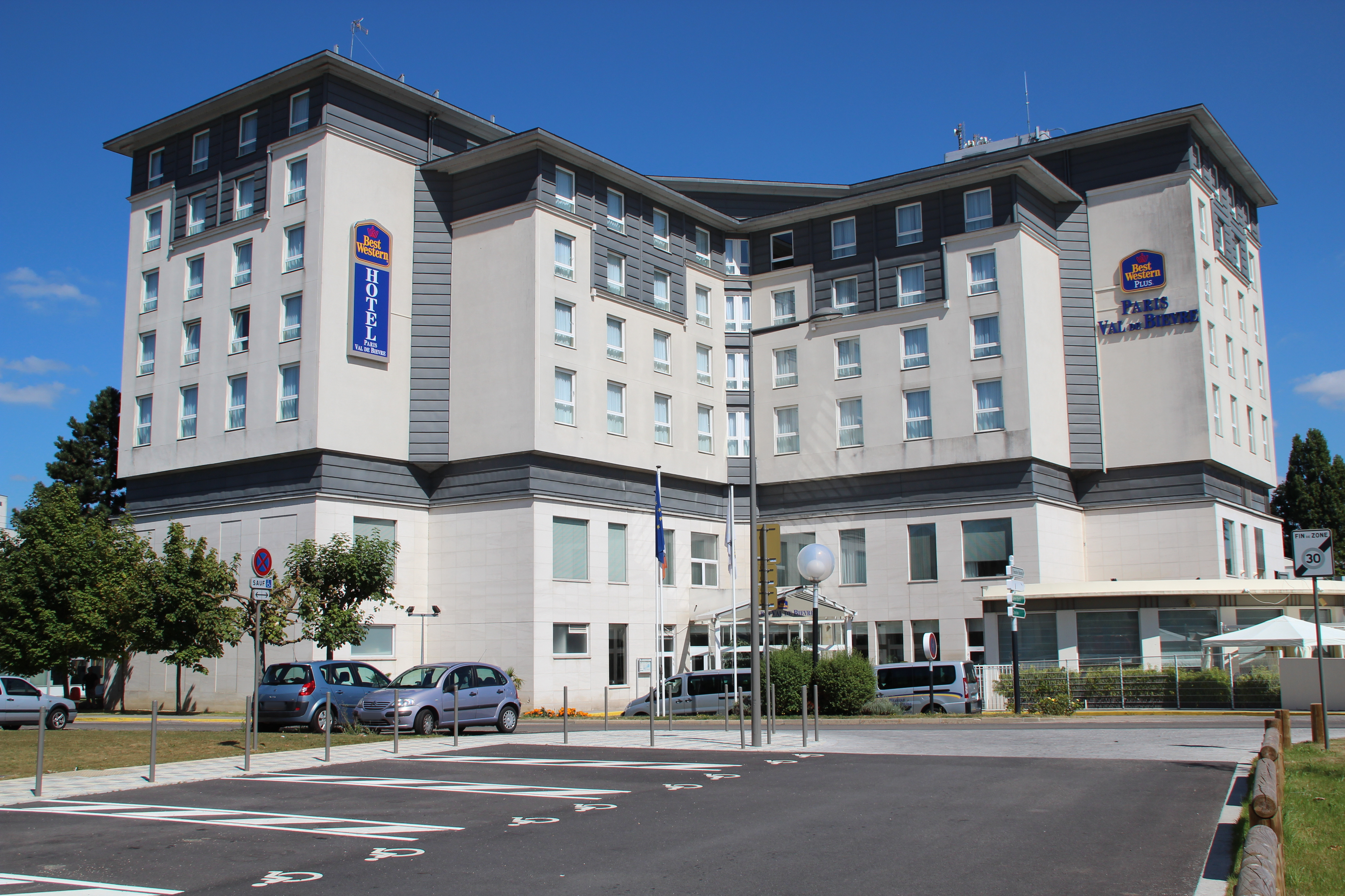 Best Western Plus hotel Paris Val de Bievre August, the 20th 2013 in Saclay, France.